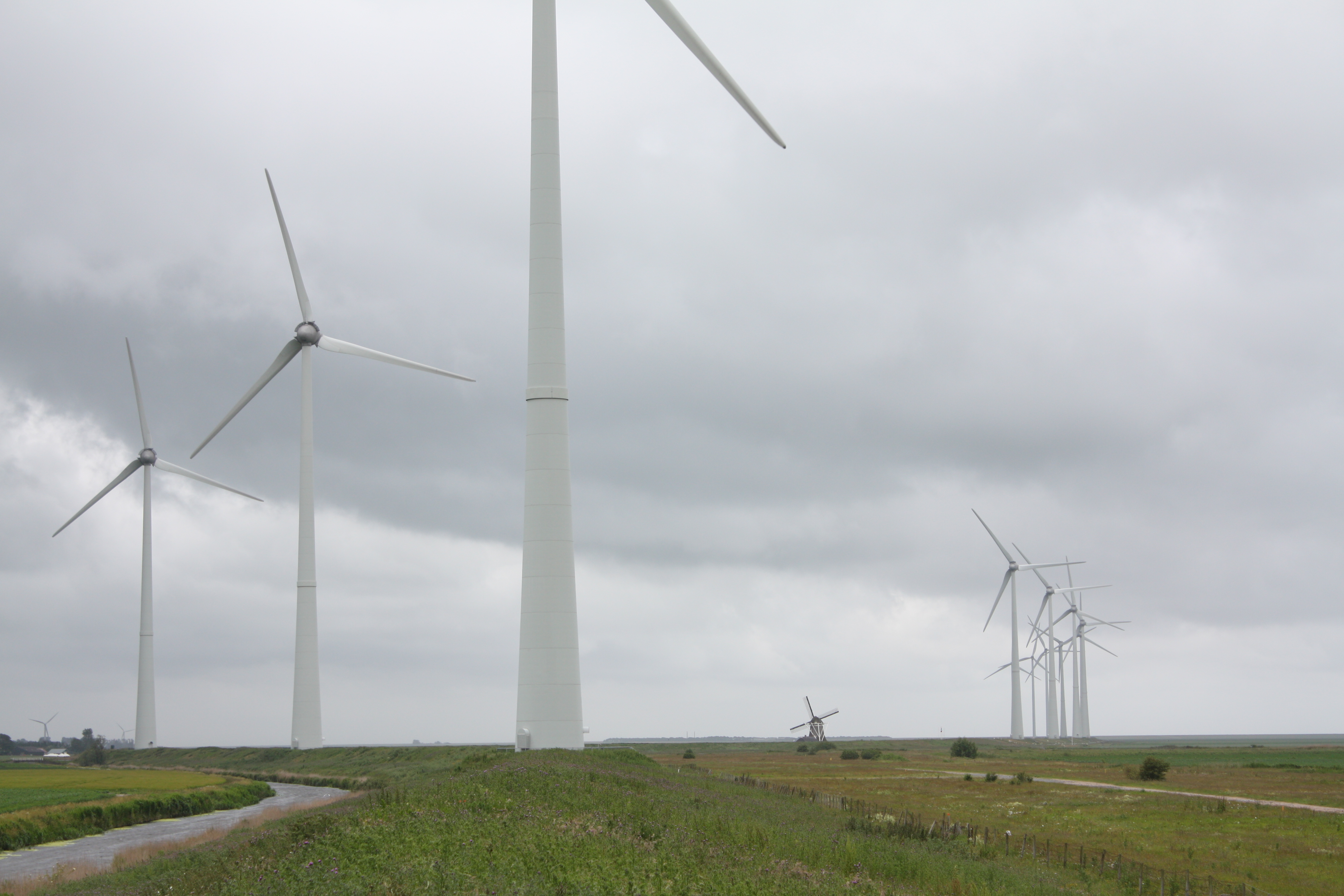 Windmill "The Goliath" in the Eemshaven and several Wind turbines